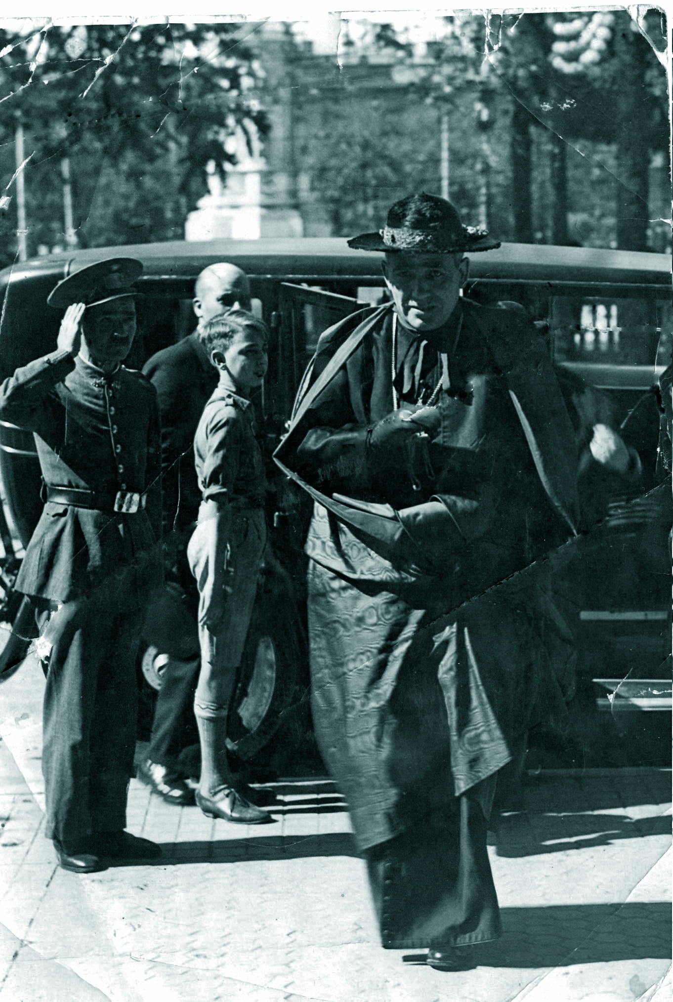 Bishop Segura walking in Seville, year 1950